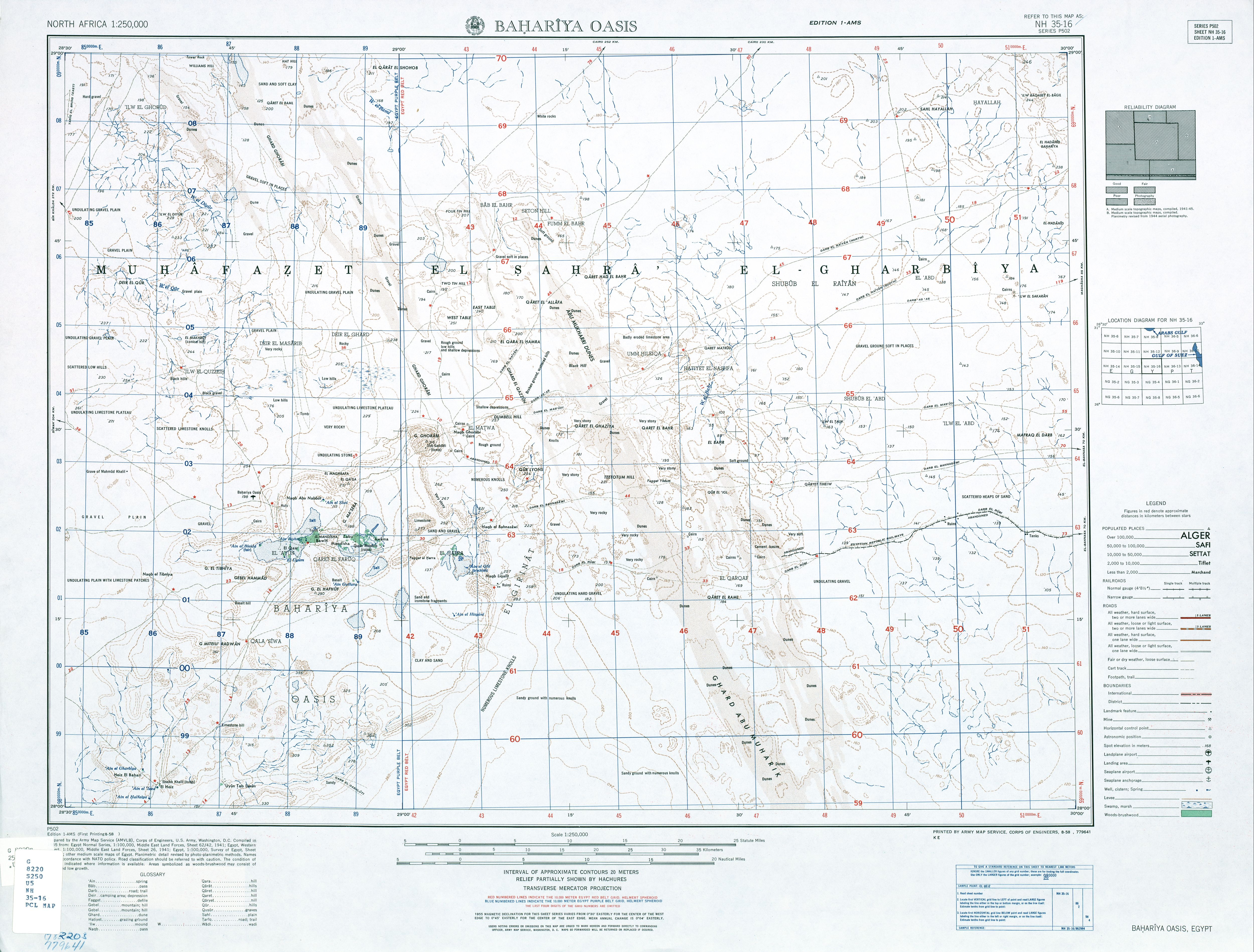 map sheet showing Bahariyya Oasis, Egypt